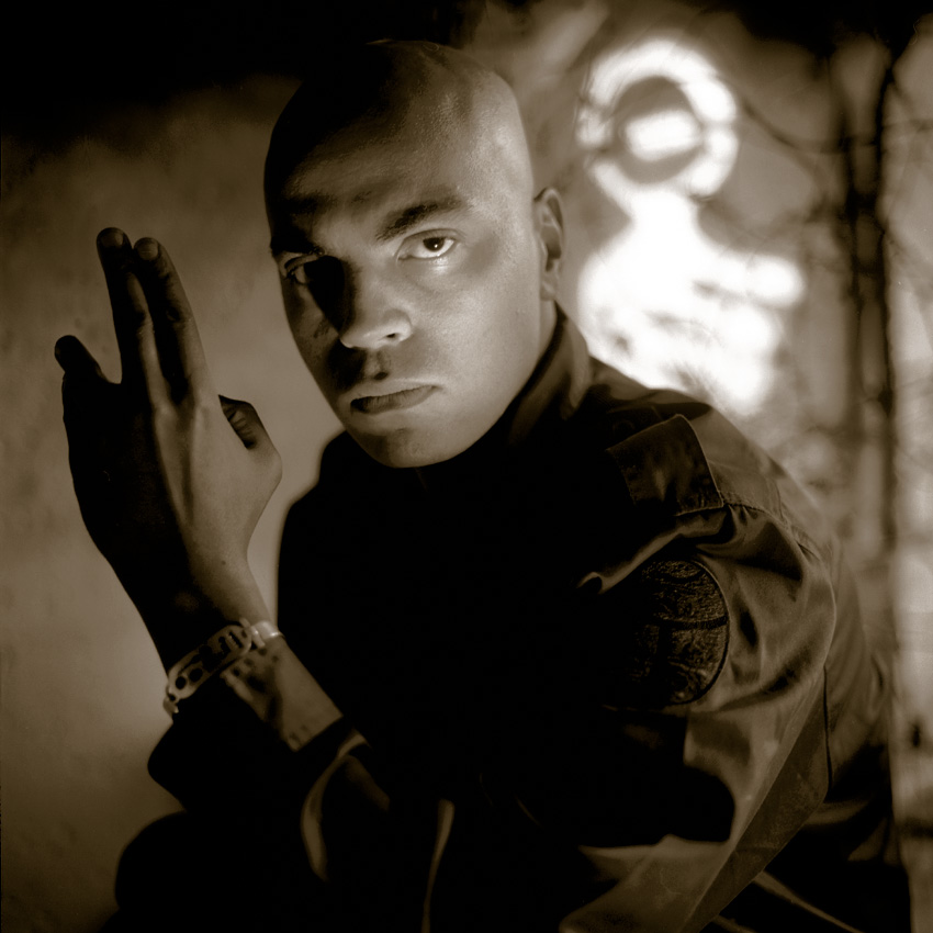 Berlin 2001